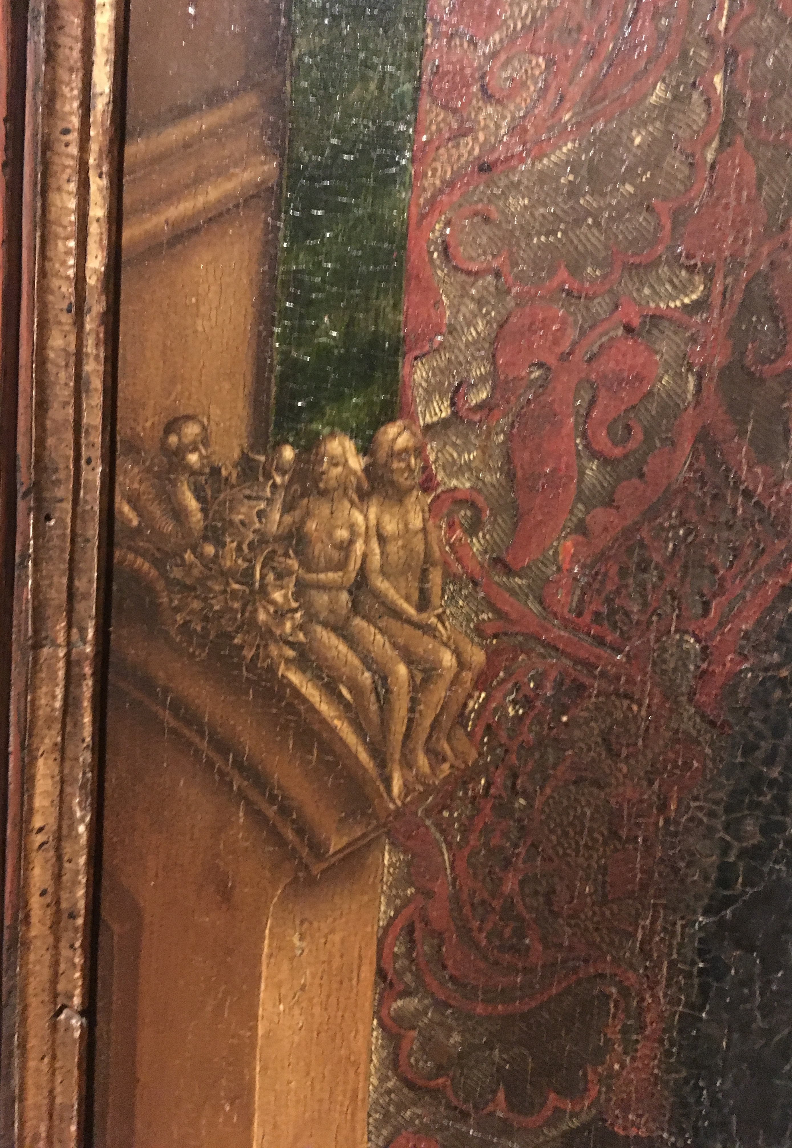 Detail from Saint Luke Drawing the Virgin, Boston Museum of Fine Arts